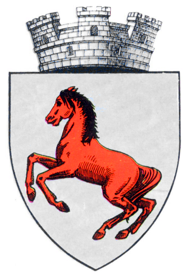 Interwar coat of arms of Comrat, Tighina County, Kingdom of Romania.